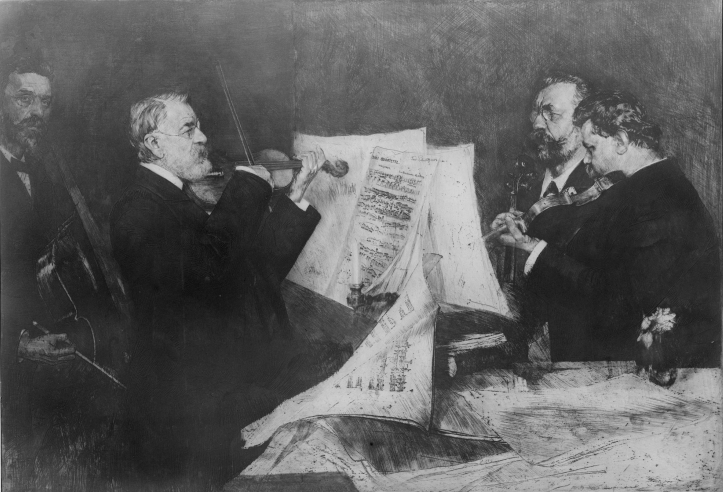 The Joachim-Quartet. F.l.t.r.: Robert Hausmann (cello). Joseph Joachim (1. violin), Emanuel Wirth (viola) und Karel Halíř (2. violin). Etching by Ferdinand Schmutzer, 1904. Engraved at the plate 884 x 1227 mm